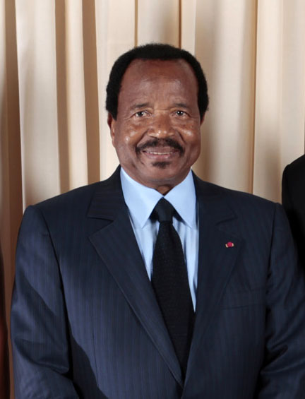 Paul Biya, in 2009.